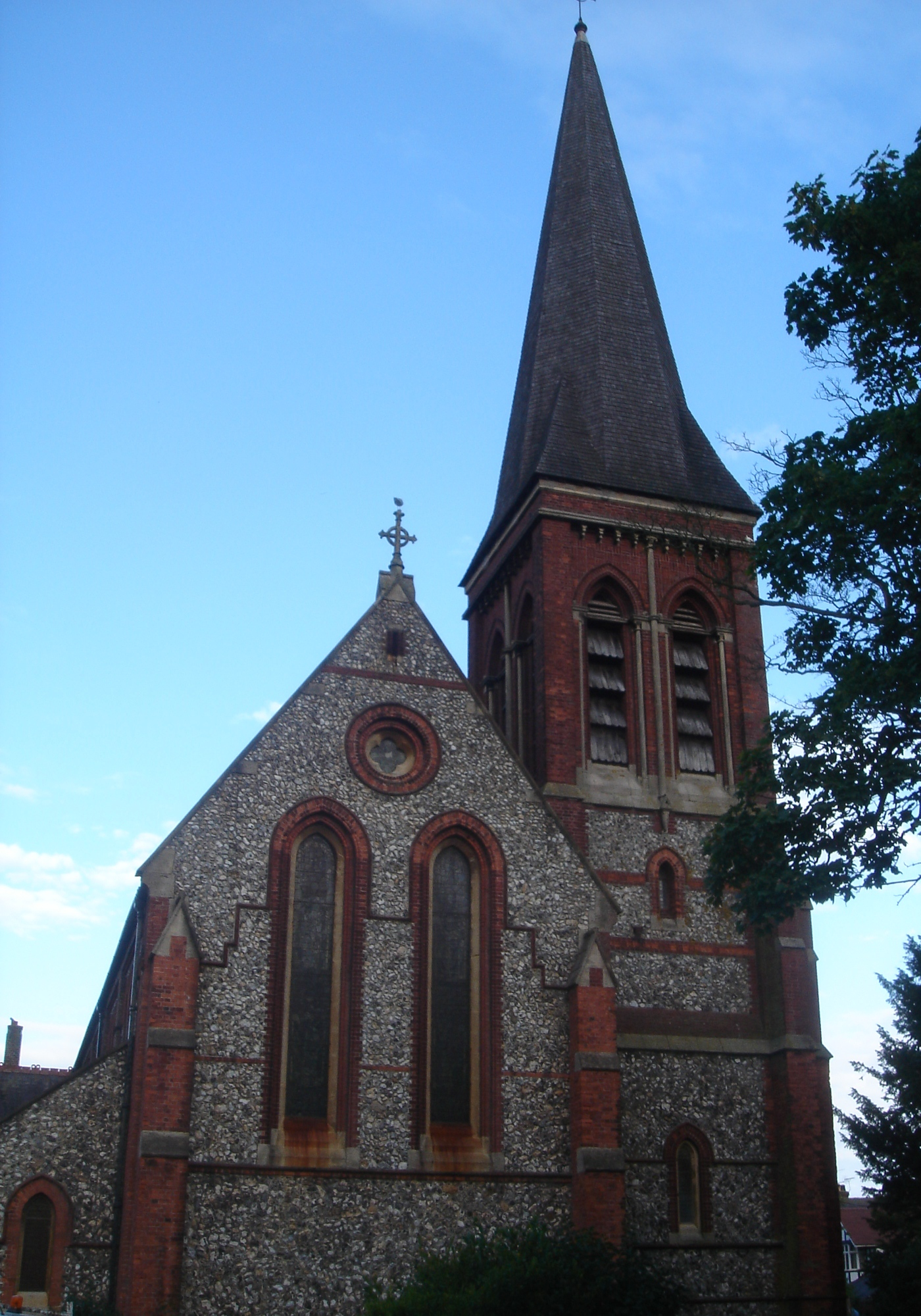 St Botolph's parish church, Lansdowne Road, Heene, Worthing, West Sussex, seen from the west